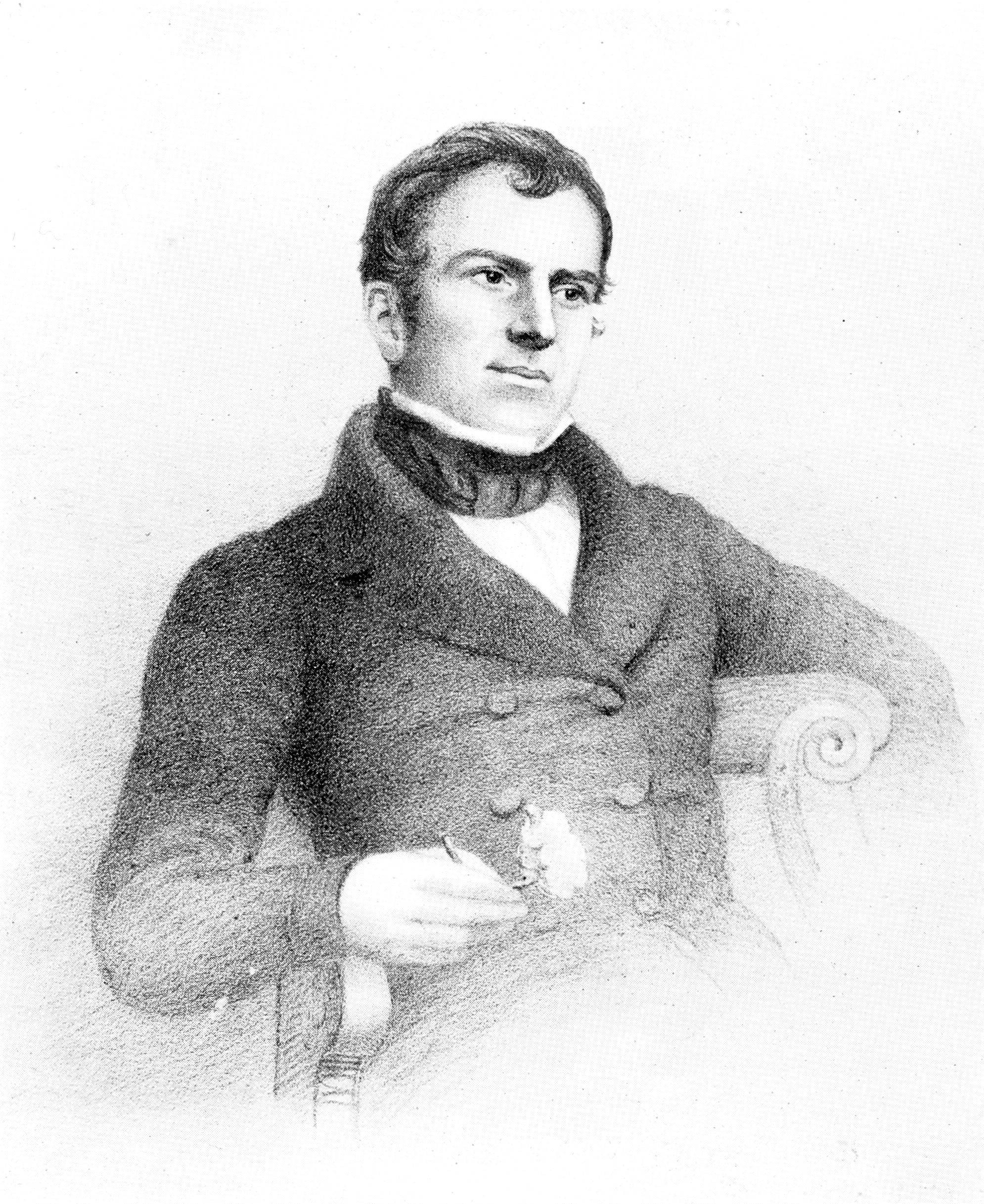 Plate 15 from Makers of British botany (1913), depicting W. Griffith(1810–1845), botanist and physician, in 1843